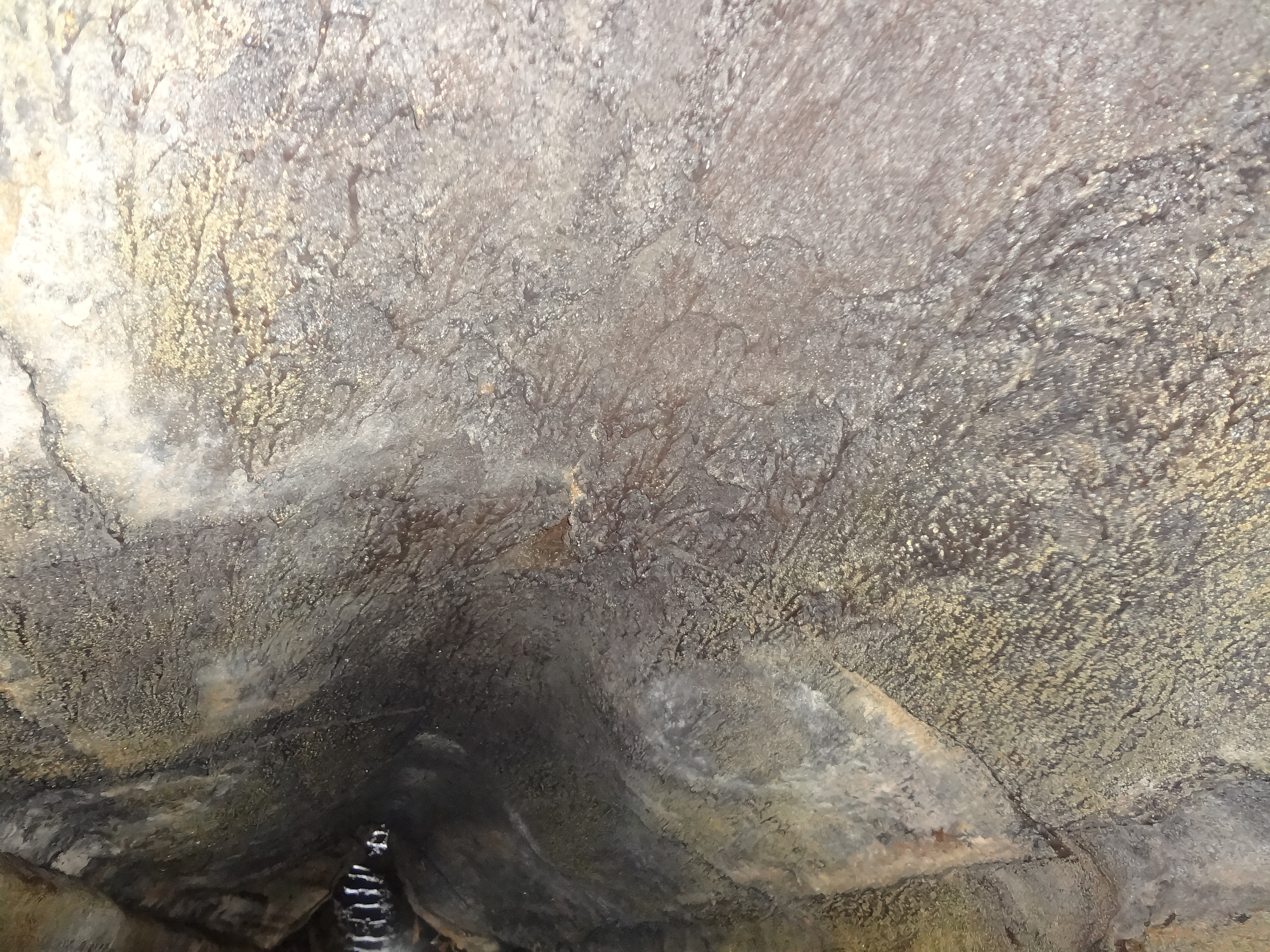 (lava tunnel) El Chato Reserve, Santa Cruz Highlands, Galápagos), inside view